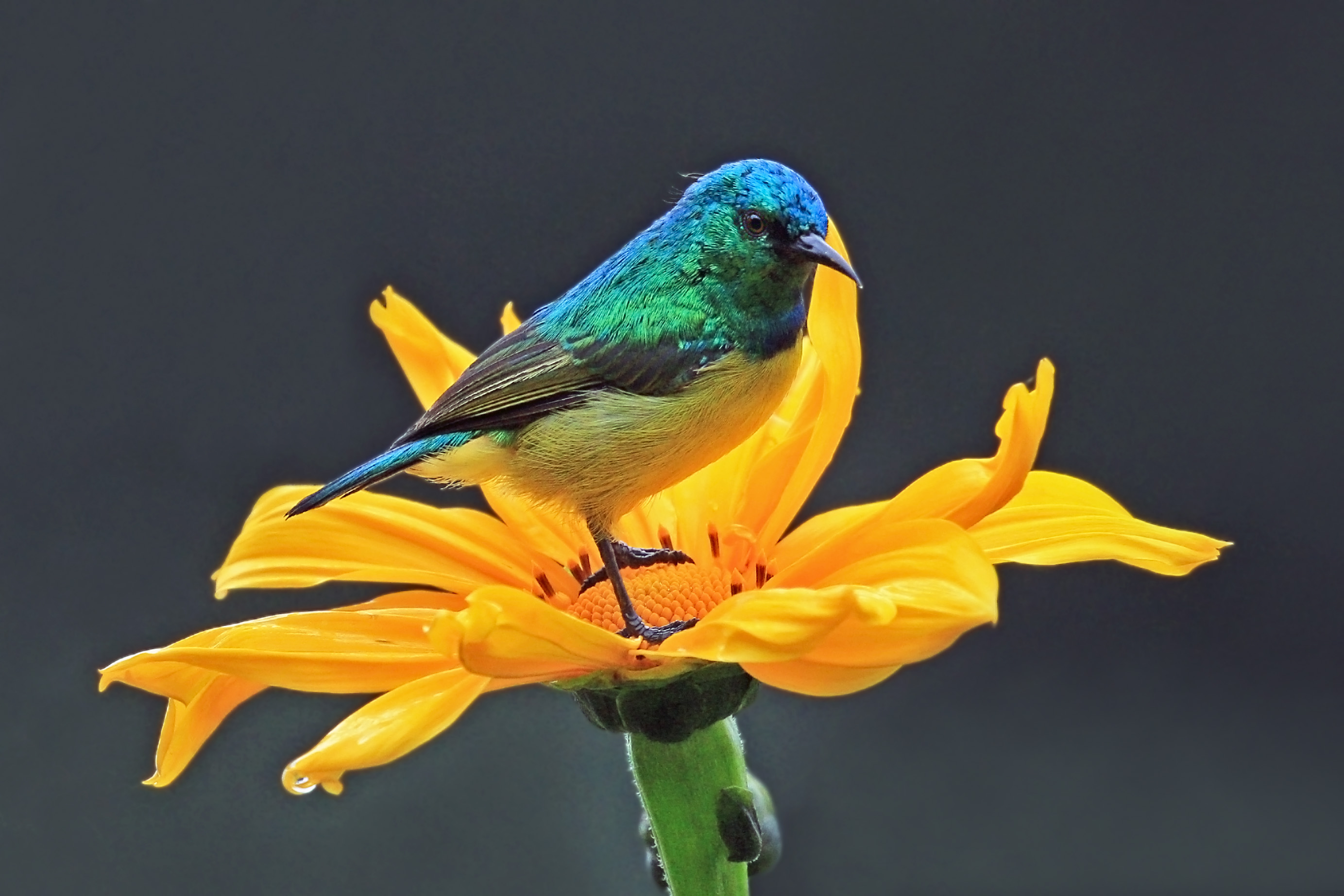 Collared sunbird (Hedydipna collaris) male, Sabyinyo Silverback Lodge, Volcanoes National Park, Rwanda